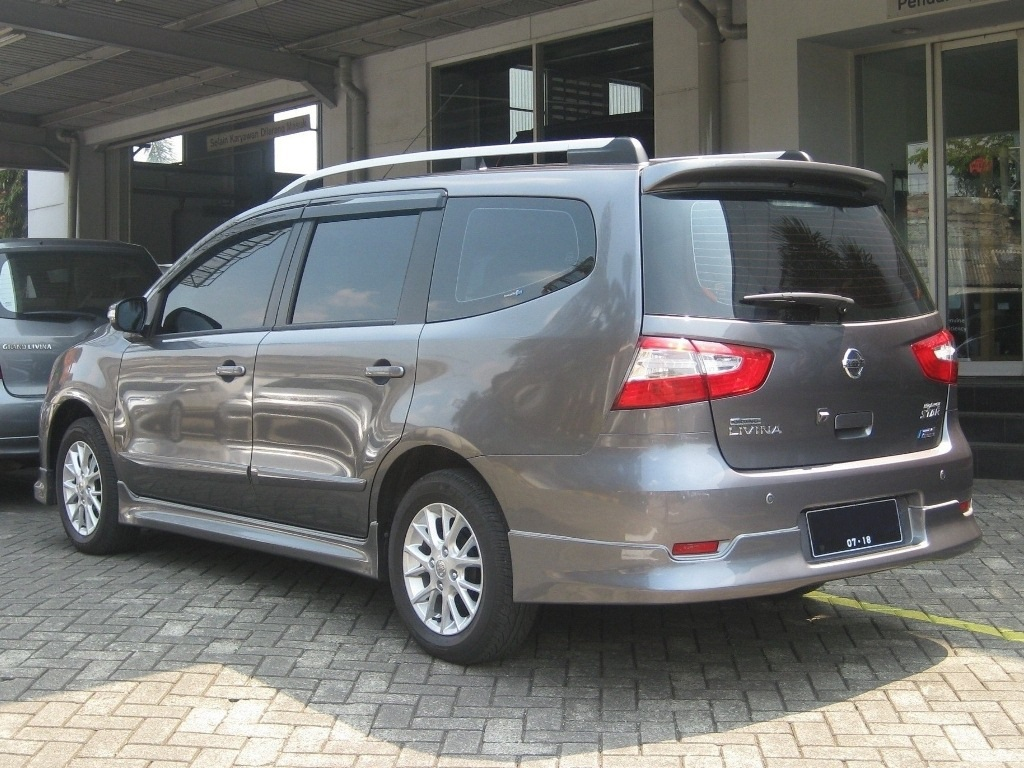 2013 Nissan Grand Livina 1.5 Highway Star (L11).